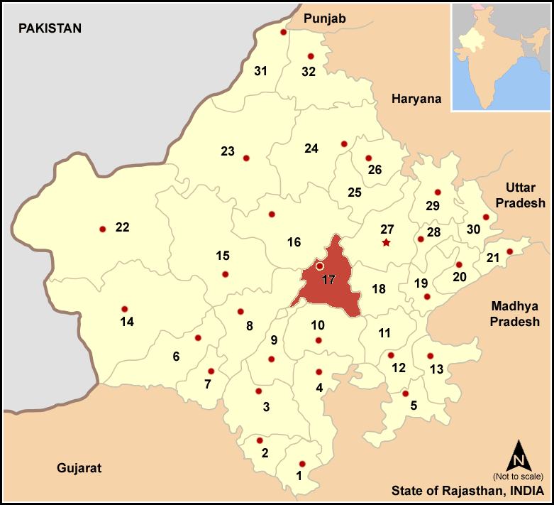 district of Rajasthan